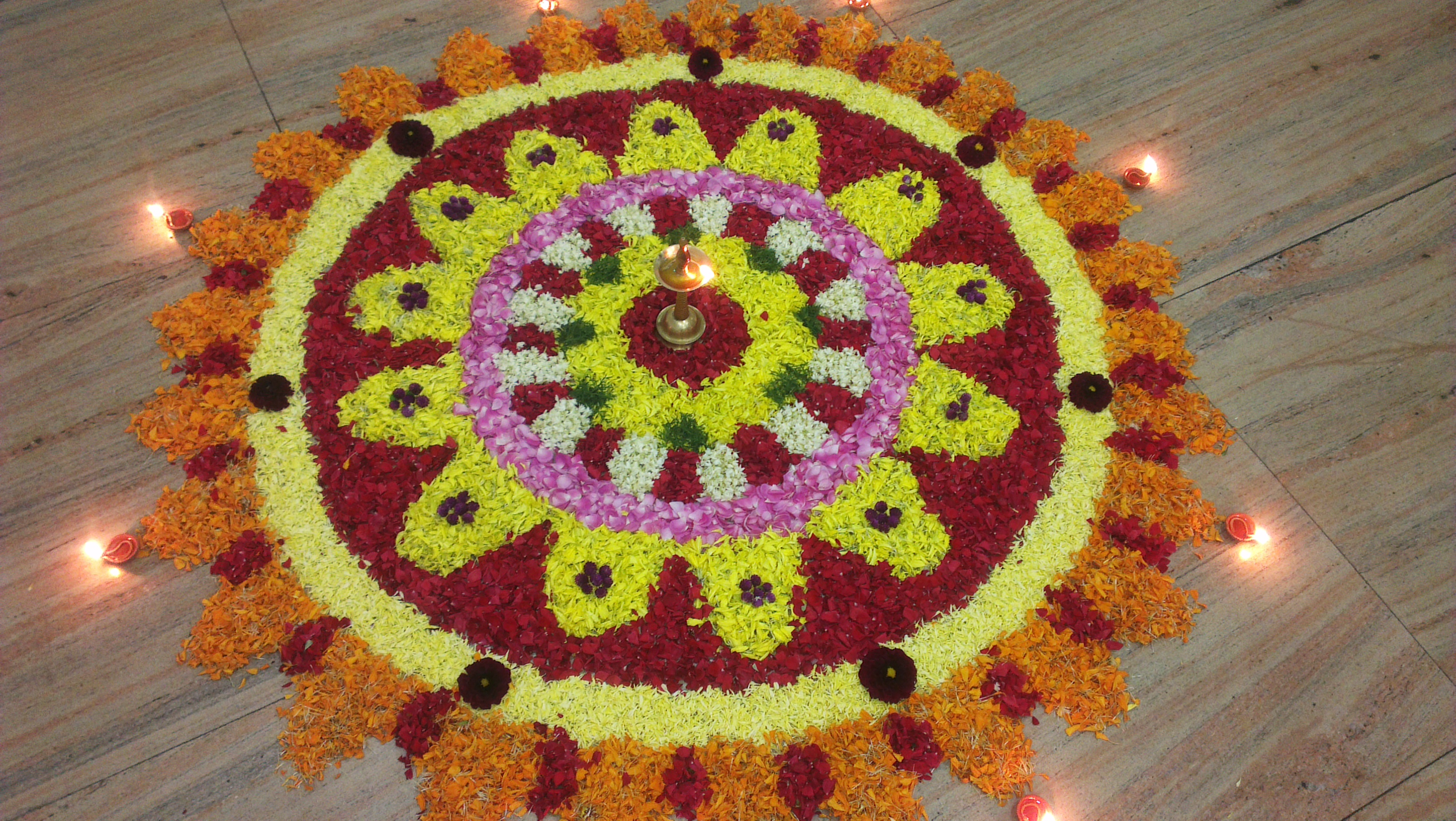 onam flower decoration